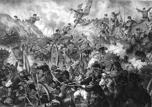 Romanian troops storming the Grivitsa redoubt during the Romanian War of Independence of 1877–1878 fought against the Ottoman Empire. The event took place on 30 August 1877.